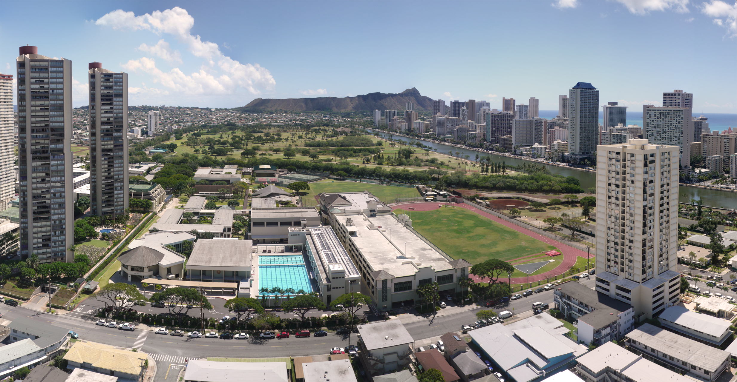 The view from my apartment in Honolulu. It's on the 32nd floor of the Ala Wai Skyrise and has an amazing view of Diamond Head, Ala Wai Canal, Ala Wai Golf Course, Iolani School, and Waikiki.